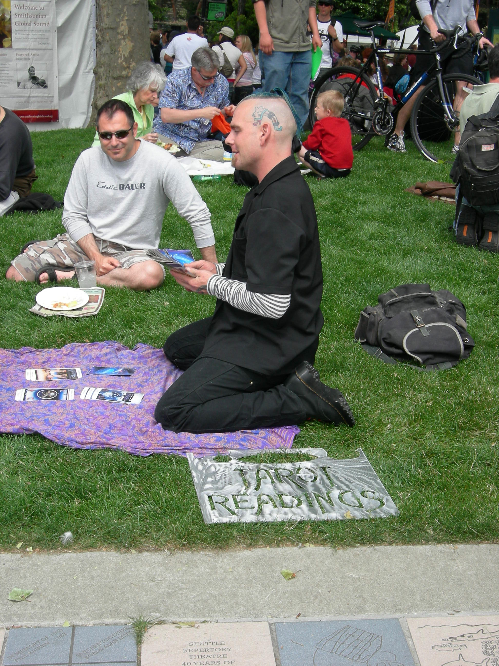 Tarot reader, Northwest Folklife Festival, Seattle Center, 2007.